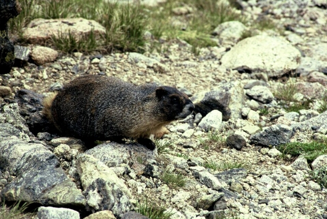 Marmota flaviventris, picture taken in Rocky Mountains